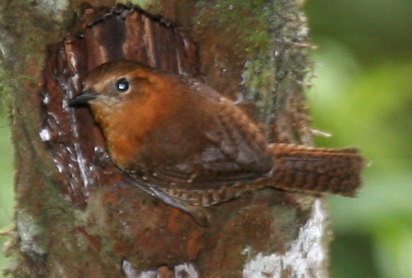 Rufous-browed Wren (Troglodytes rufociliatus), cropped from Image:Rufous-browed Wren 2496234394.jpg